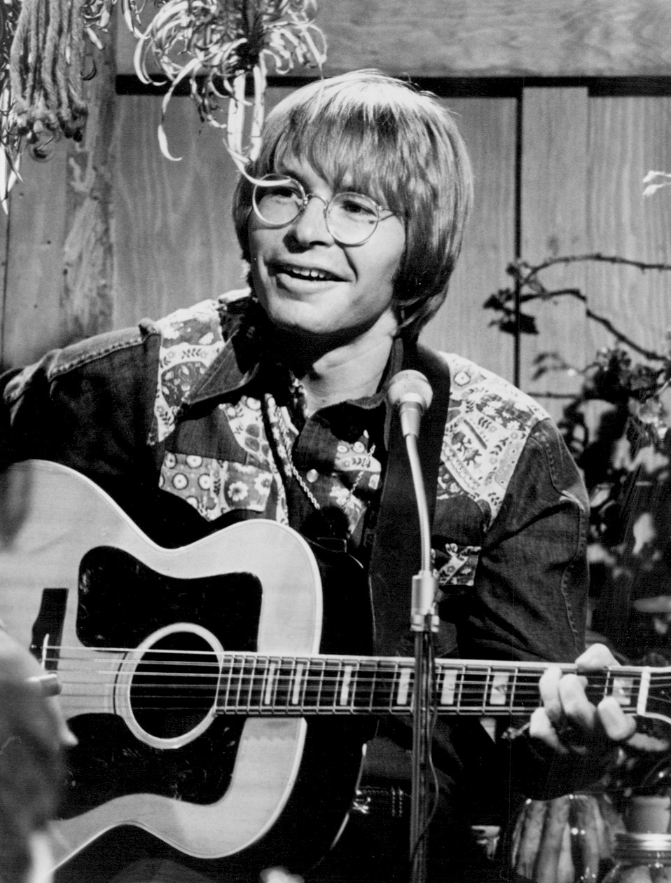 Photo of John Denver from the television special An Evening With John Denver.